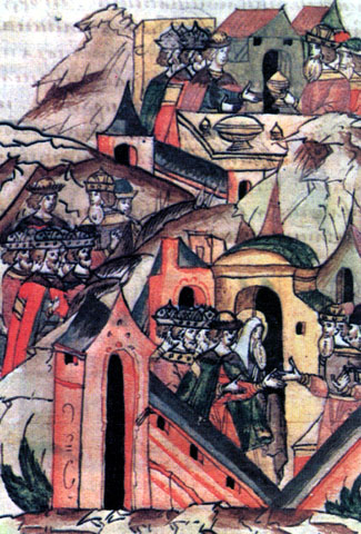 Vasily I visits his father-in-law, Vytautas the Great. Medieval illumination.